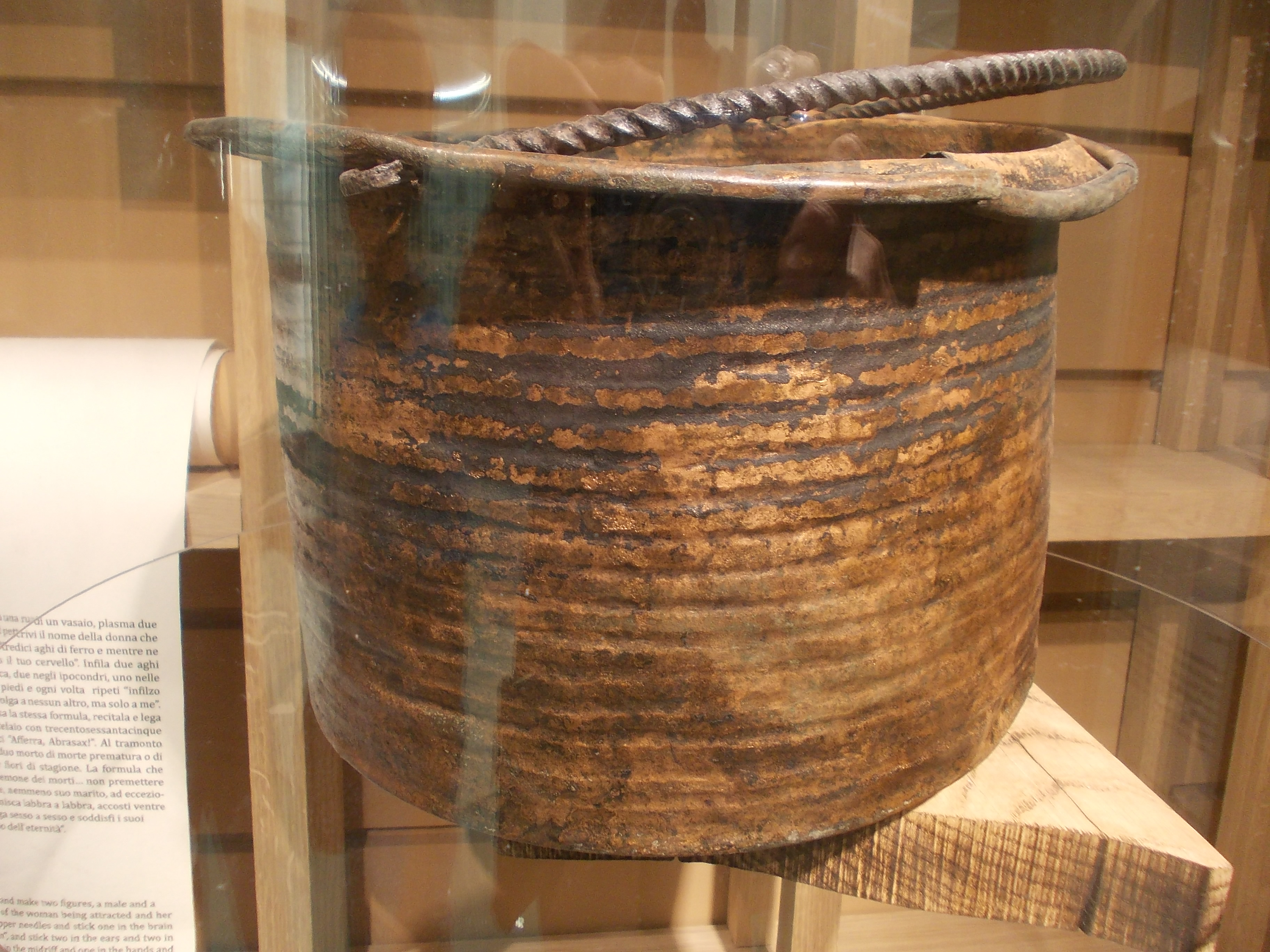 Copper pot used for magical ritual at Anna Perenna fountain found in Rome